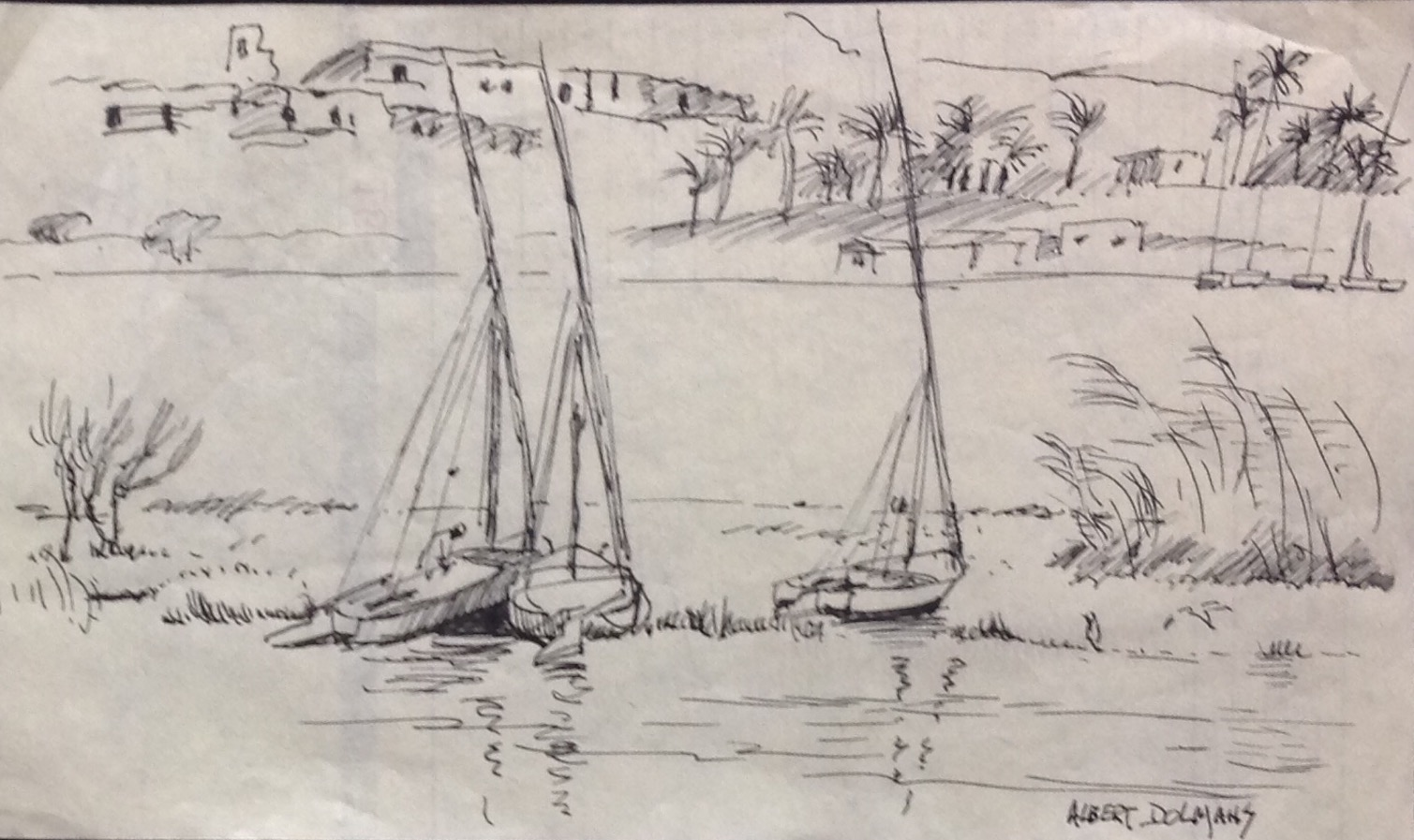 A pencil drawing by A Dolmans dated 1994 of a view along the river Nile.